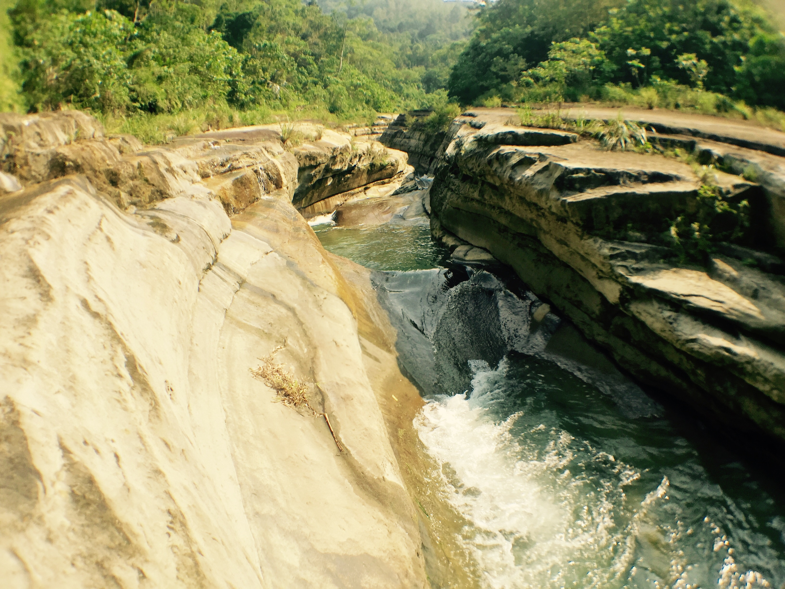 Shimankeng River flowing through Wannian Canyon.